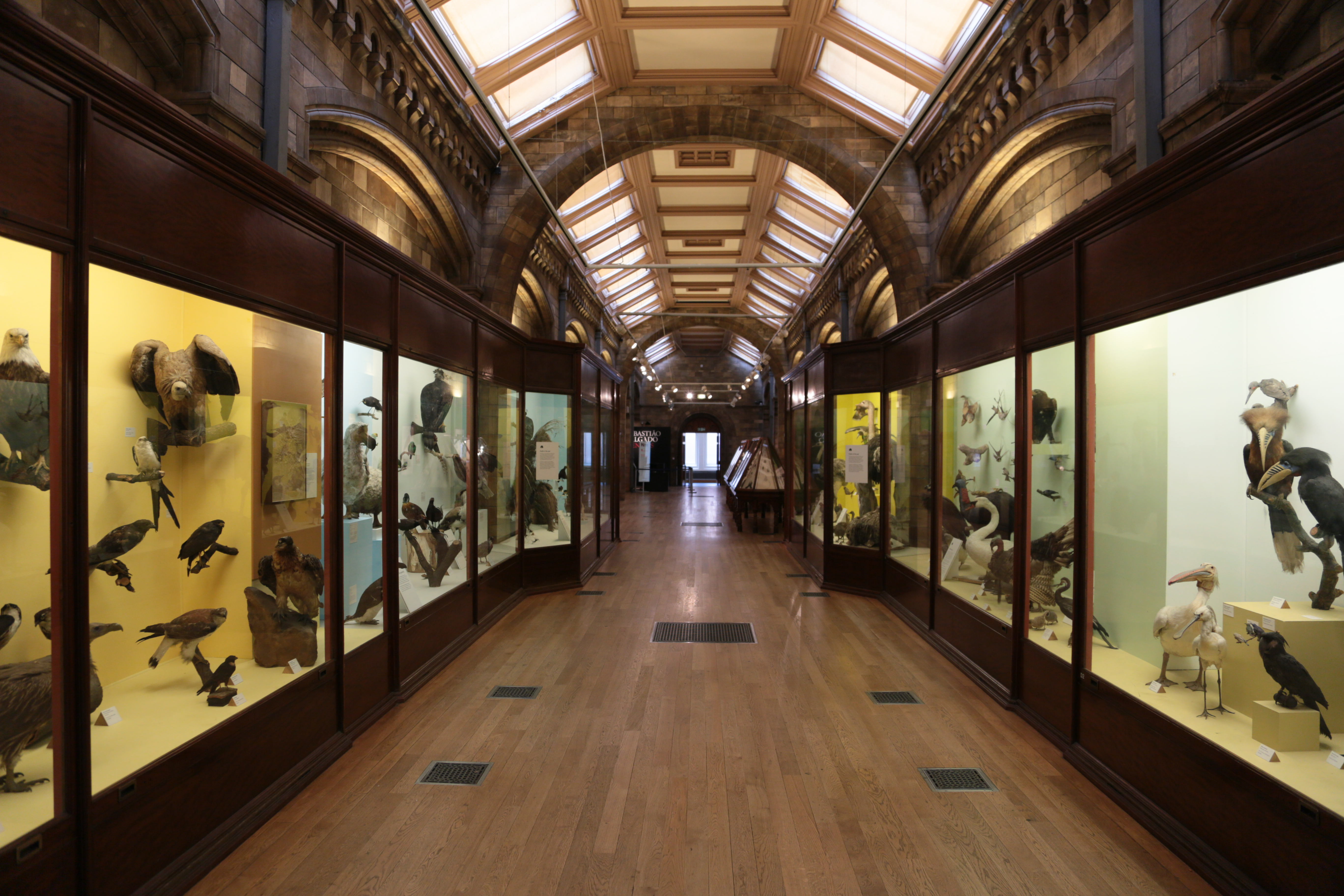 Entrance to the bird gallery at the Natural History Museum, London